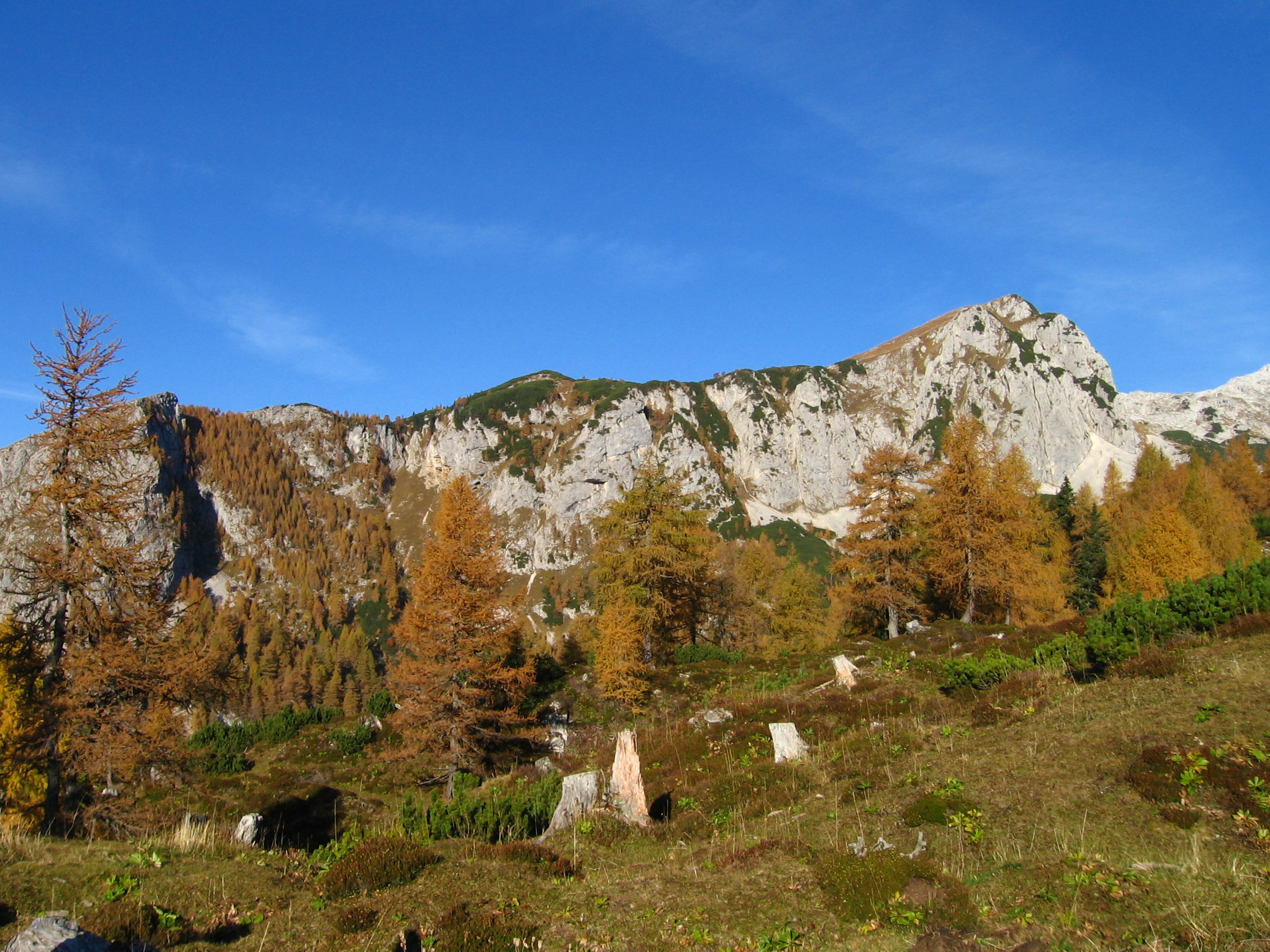 Mount Ogradi (2087 m) from Krstenica meadow, a part of Triglav national park, Slovenia